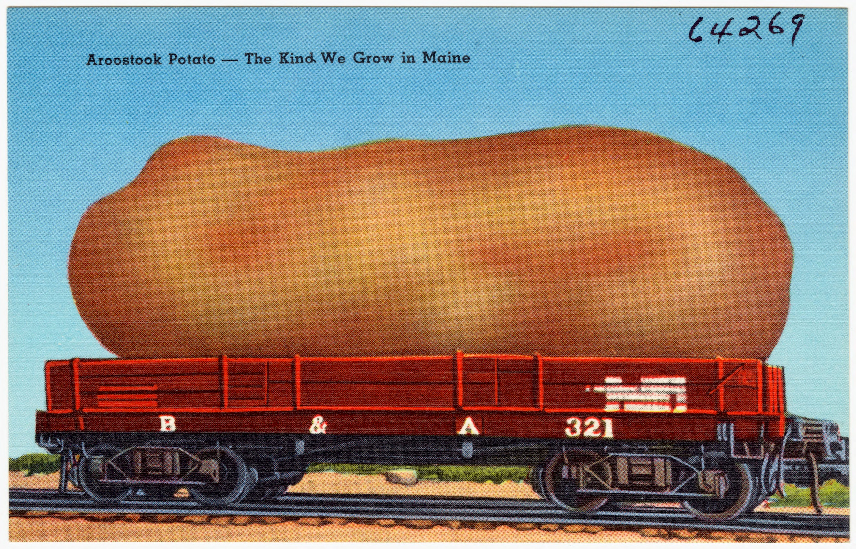 Title: Aroostook Potato -- The kind we grow in Maine Places: Maine Notes: Title from item. Extent: 1 print (postcard) : linen texture, color ; 3 1/2 x 5 1/2 in. Accession #: 06_10_003009